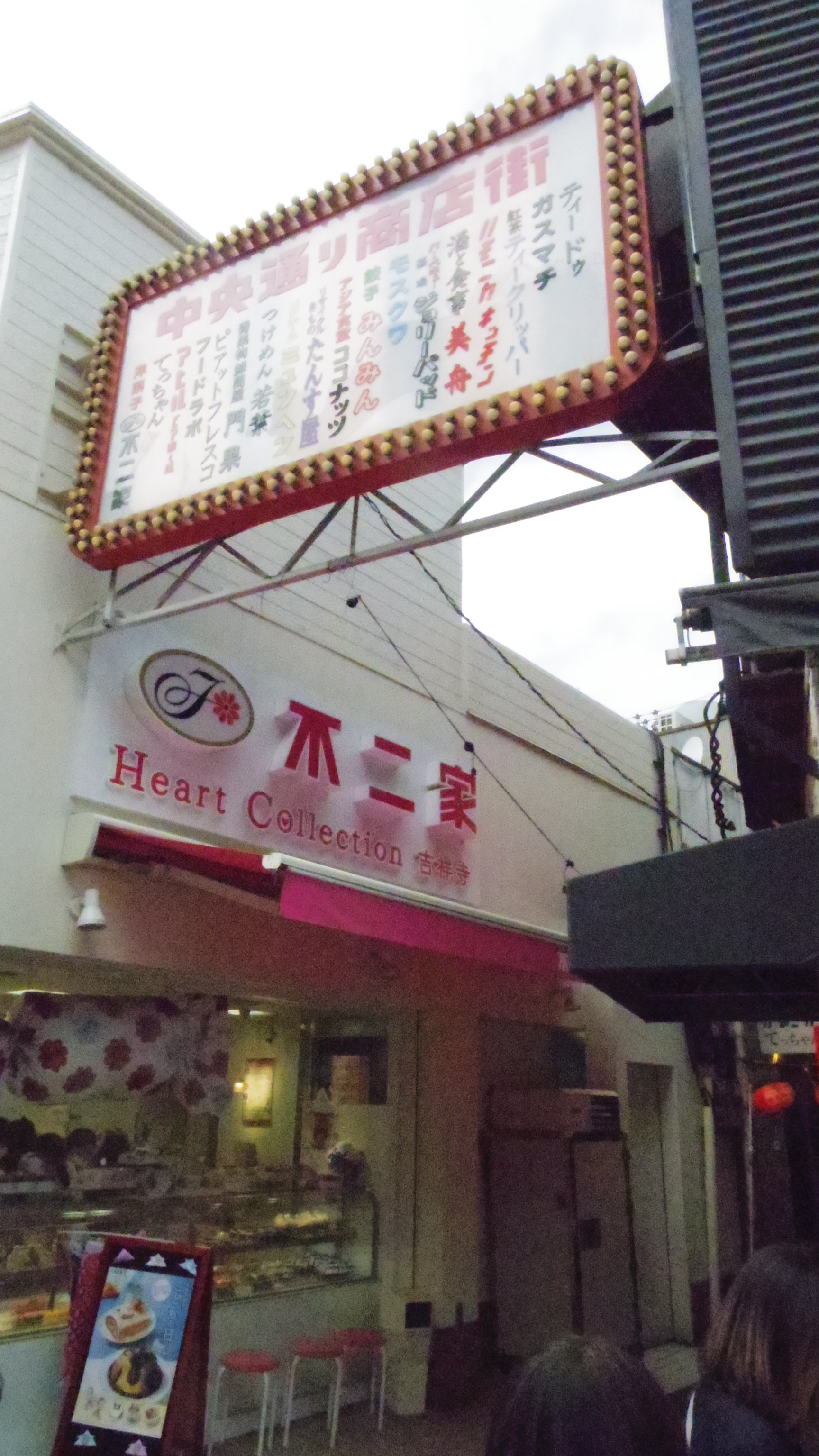 Harmonica side street by Kichijoji, Tokyo.